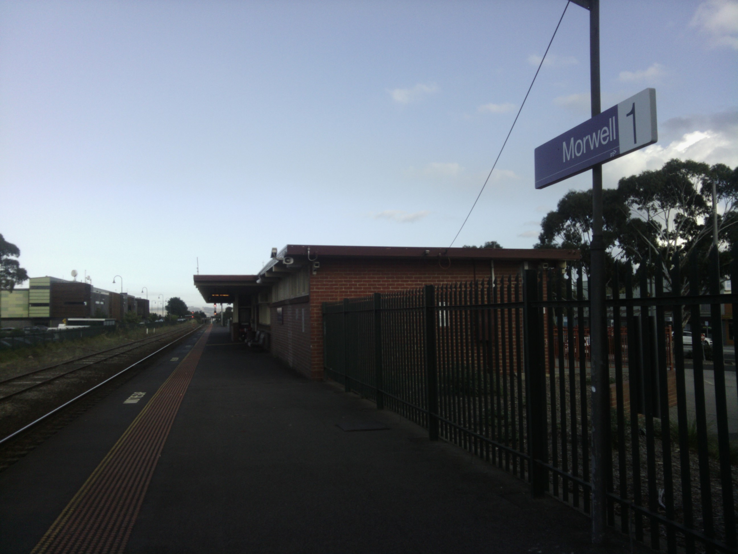 Photo of Morwell railway station.